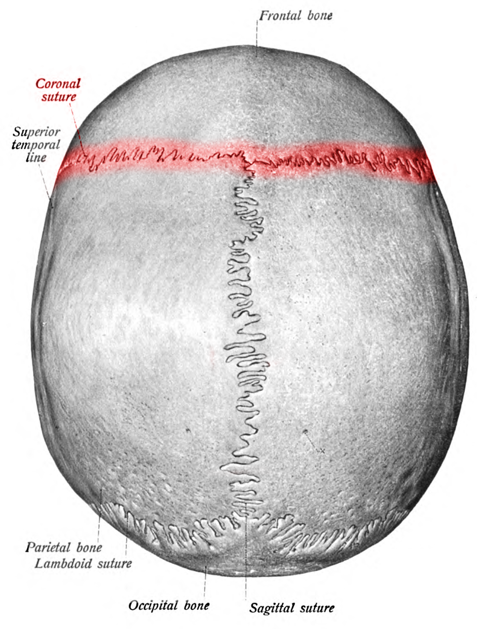 Coronal suture. Shown in red.